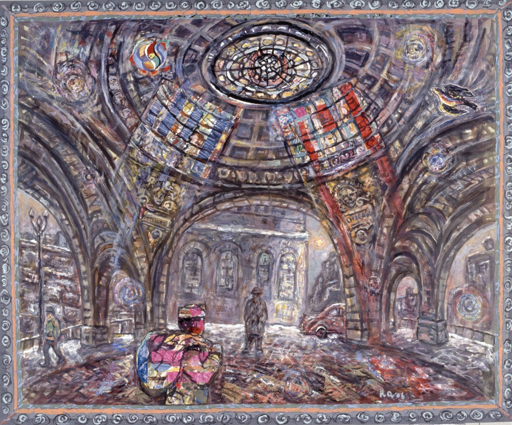 Penn Station Rotunda, 2006 acrylic and collage on canvas 42 x 48” Artist: Robert Qualters